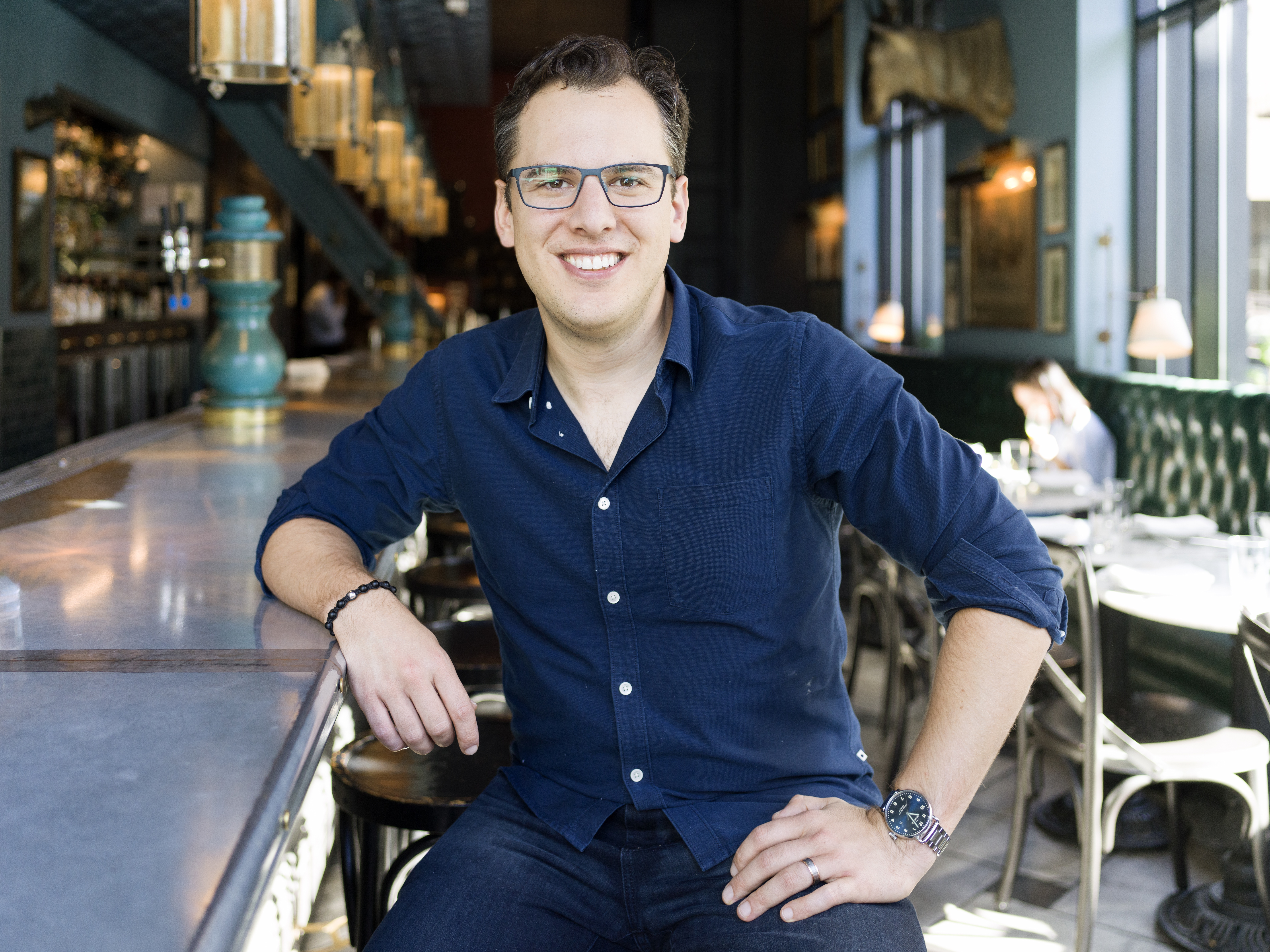 Mike Krieger in 2018 by Christopher Michel